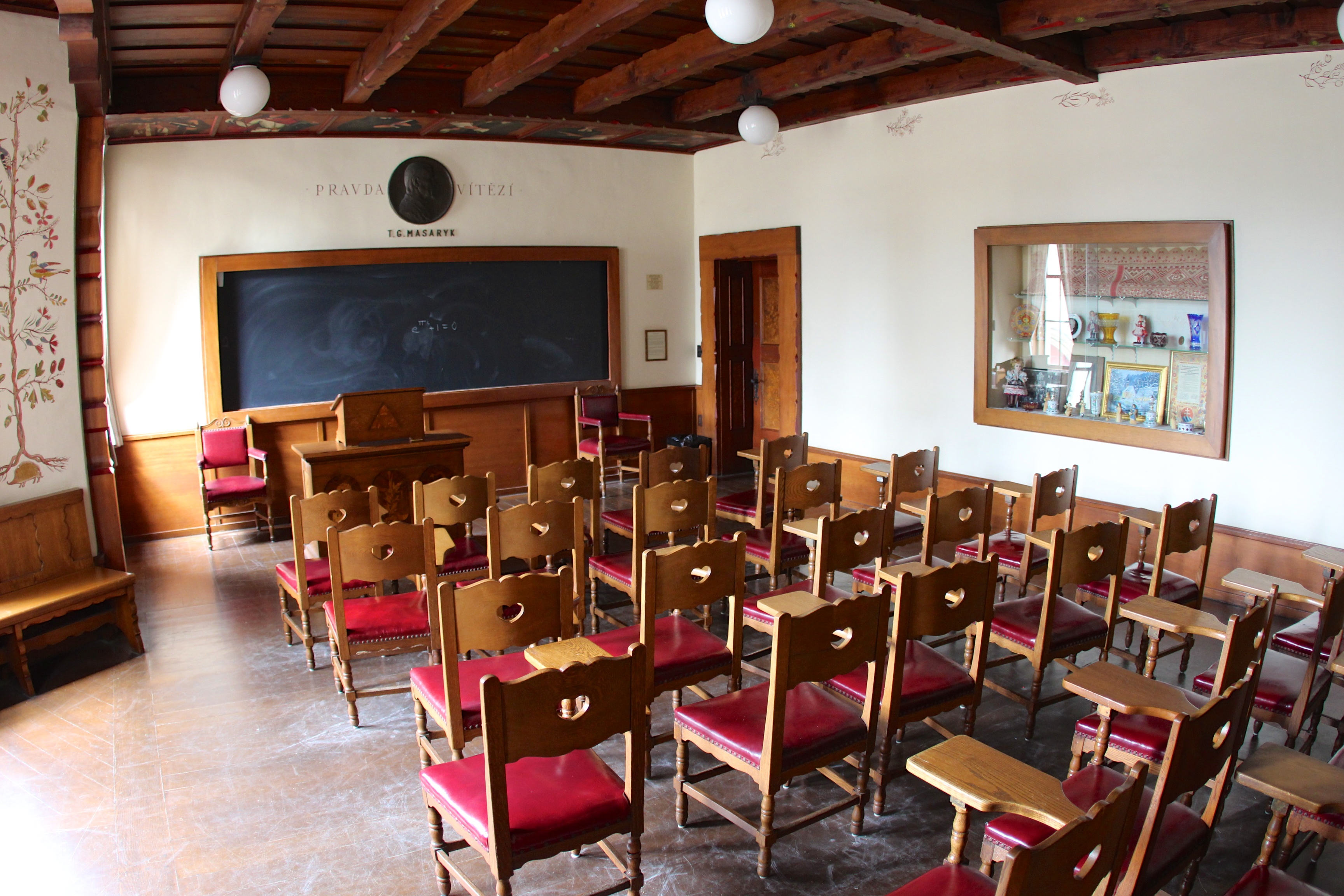 Czechoslovak Nationality Room in the Cathedral of Learning at the University of Pittsburgh